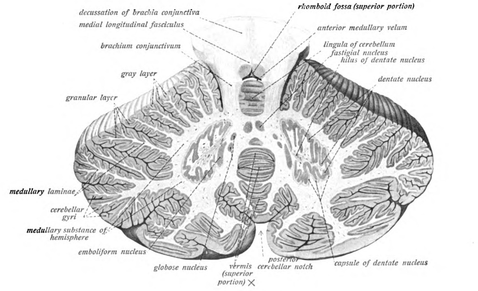 A cross-section of the cerebellum in the direction of the brachia conjunctiva. cerebellar notch, however, it passes over gradually into the superior vermis, so that the surface of the whole vermis represents about three-fourths of a circle and is marked with distinct transverse fissures.